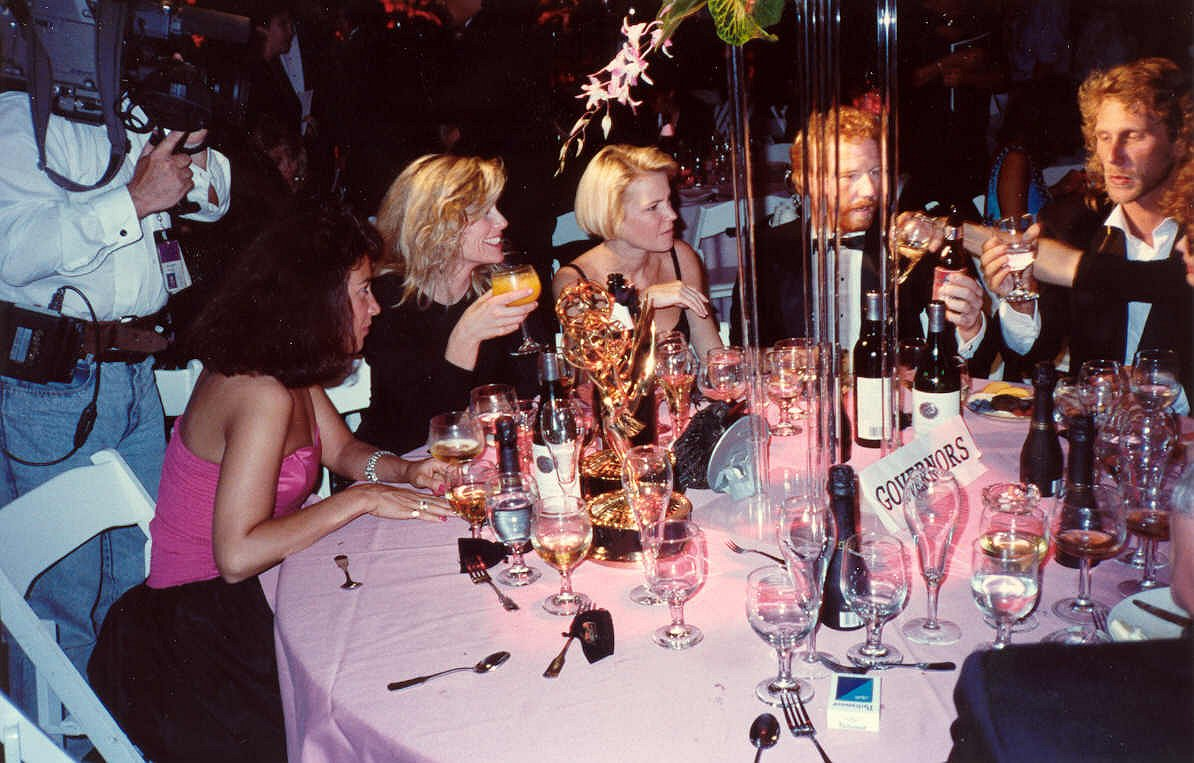 Photo taken at the 40th Emmy Awards, August 1988 - Governor's Ball - Permission granted to copy, publish or post but please credit "photo by Alan Light" if you can